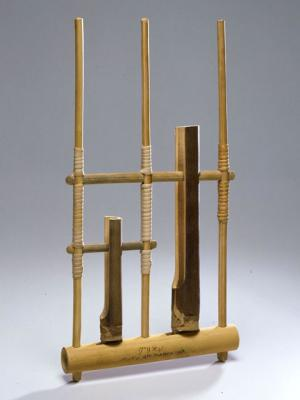 Indonesian Angklung has been recognized by UNESCO as a Masterpiece of Oral and Intangible Heritage of Humanity.